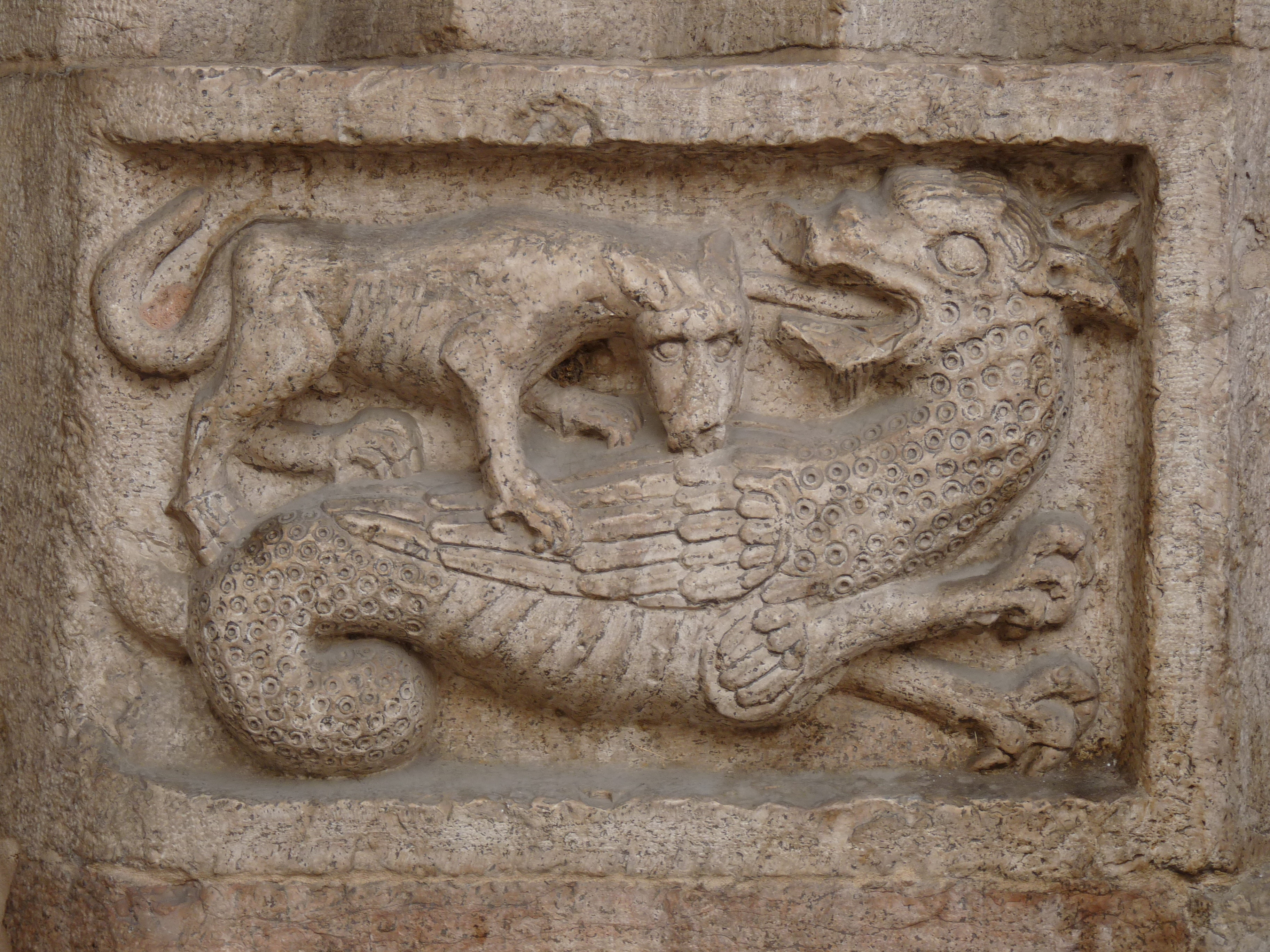 Trento (Italy): relief on the right side of the portal at the eastern entrance of the cathedral of Saint Vigilius. The relief depicts a wyvern being attacked by a wolf (or dog).